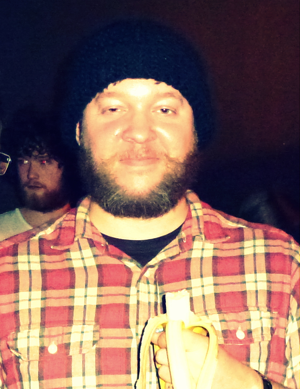 Ben Cooper from the group Radical Face.